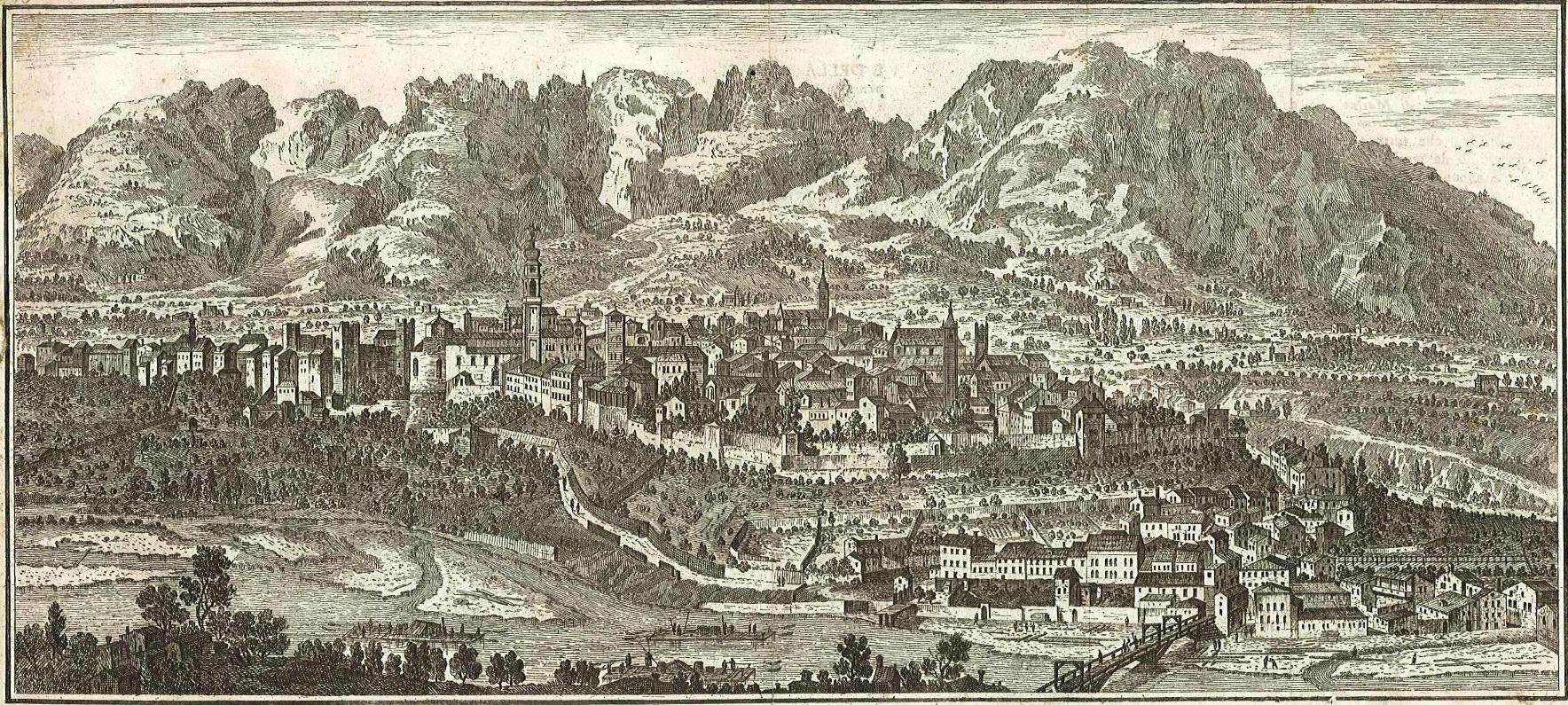 Old print of Belluno, the capital of the province of Belluno in 1750 by Thomas Salmon